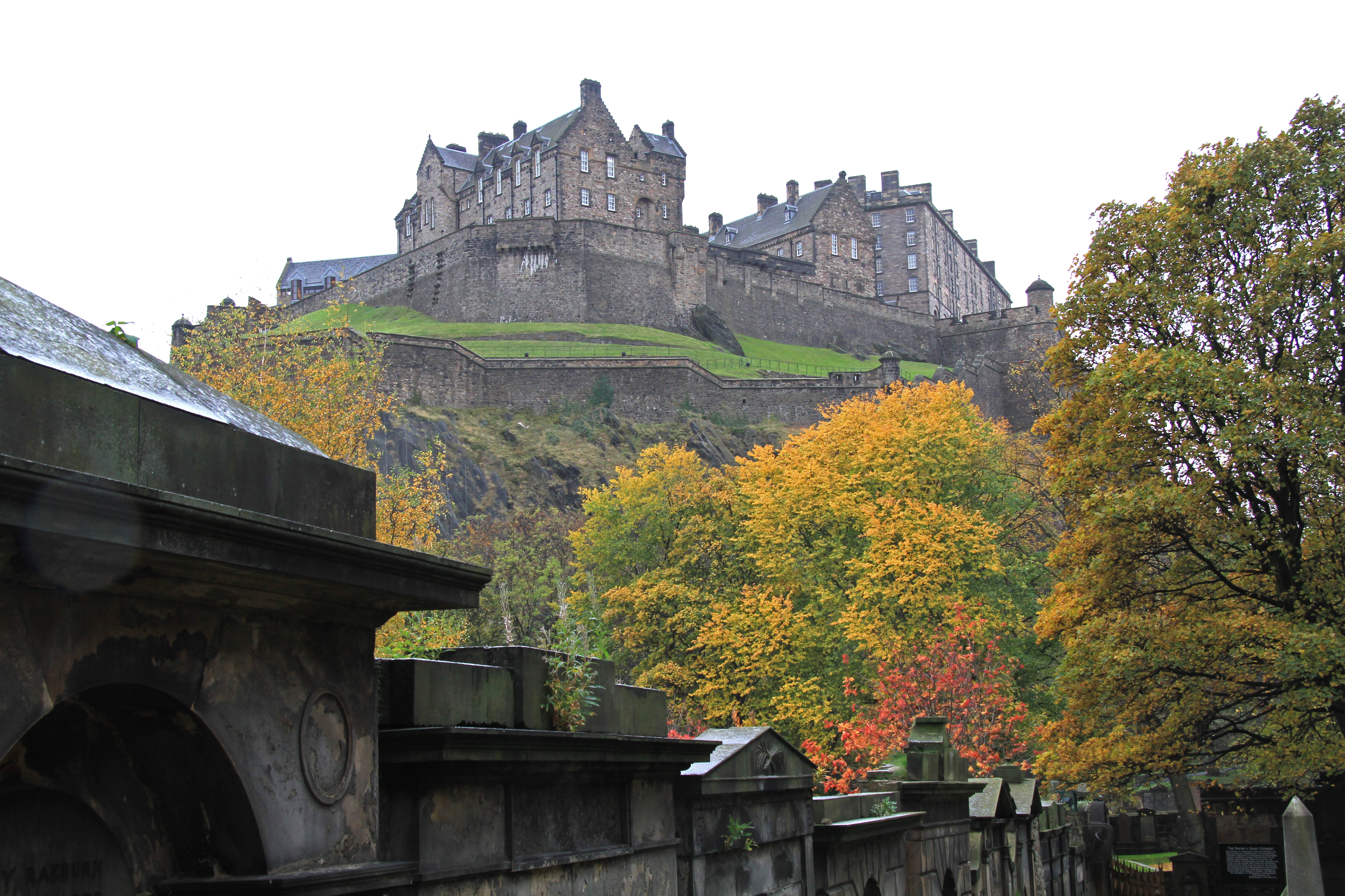 Edinburgh Castle 10